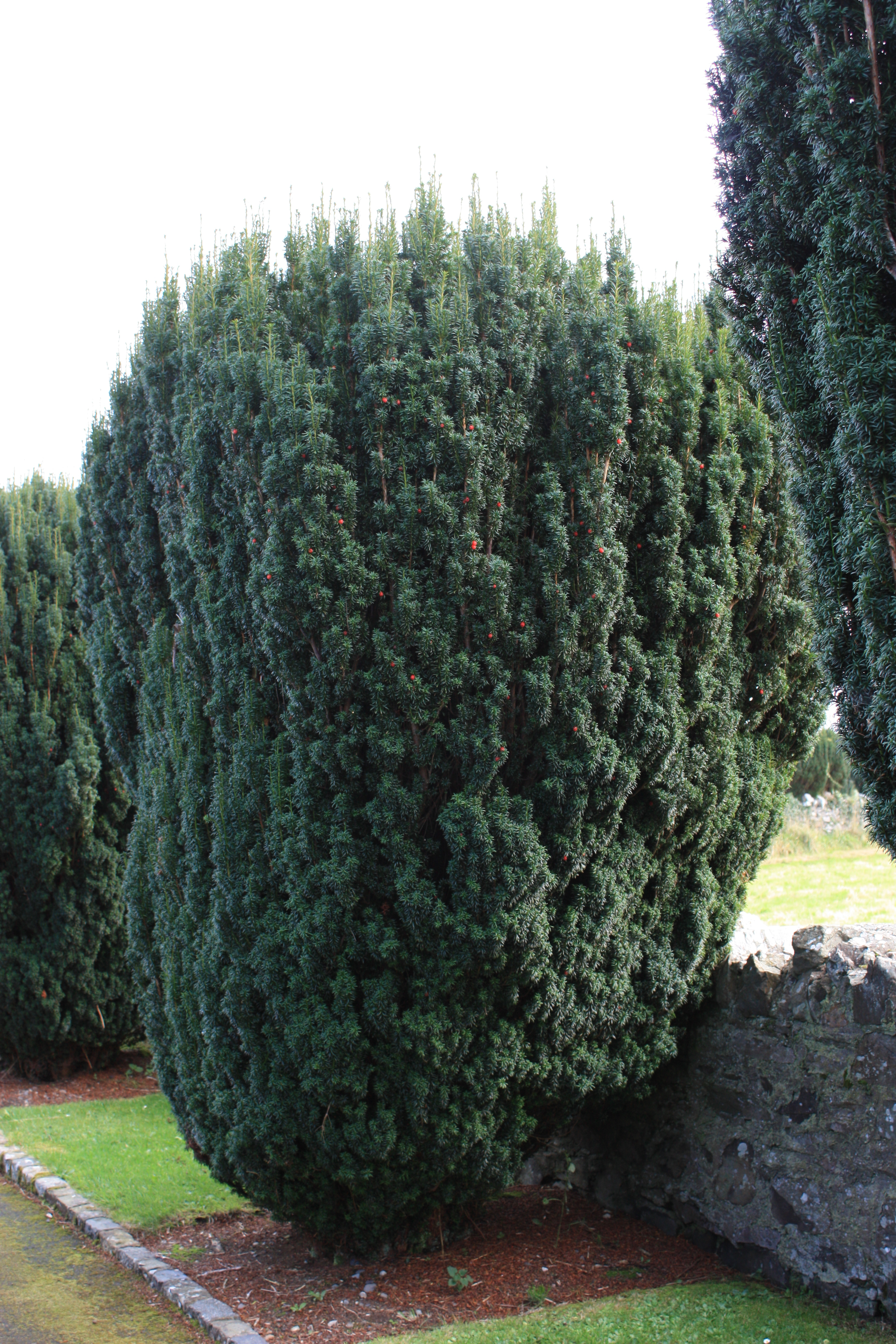 Irish Yew Taxus baccata 'Fastigiata' at Saul Church, Saul Road, Saul, County Down, Northern Ireland, October 2009